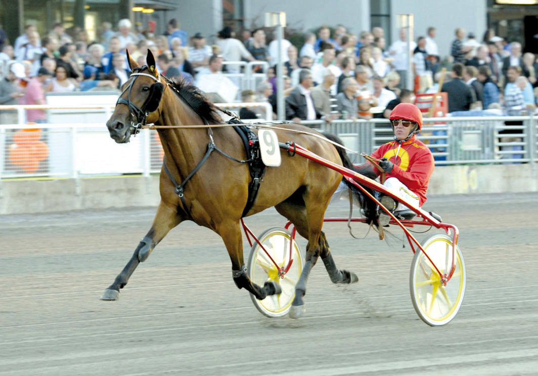 Tamla Celeber and driver Örjan Kihlström.